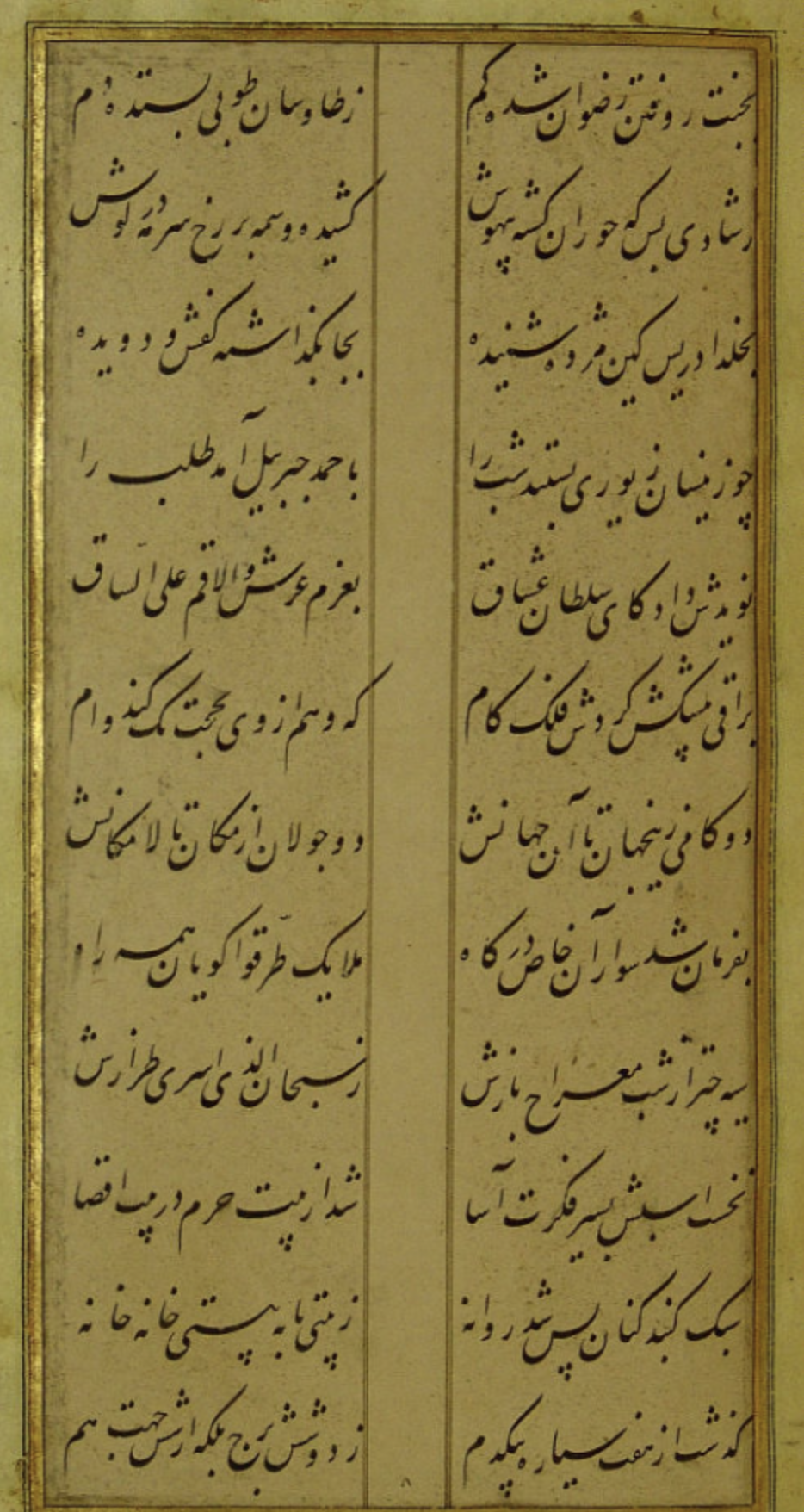 A copy of Amir Khosru Dehlavi's Masnavi-e Davalrāni copied by the master scribe Baba Shah al-Isfahani. Currently placed at the Astān-e Qods Razavi Library (Mashad, Iran.)